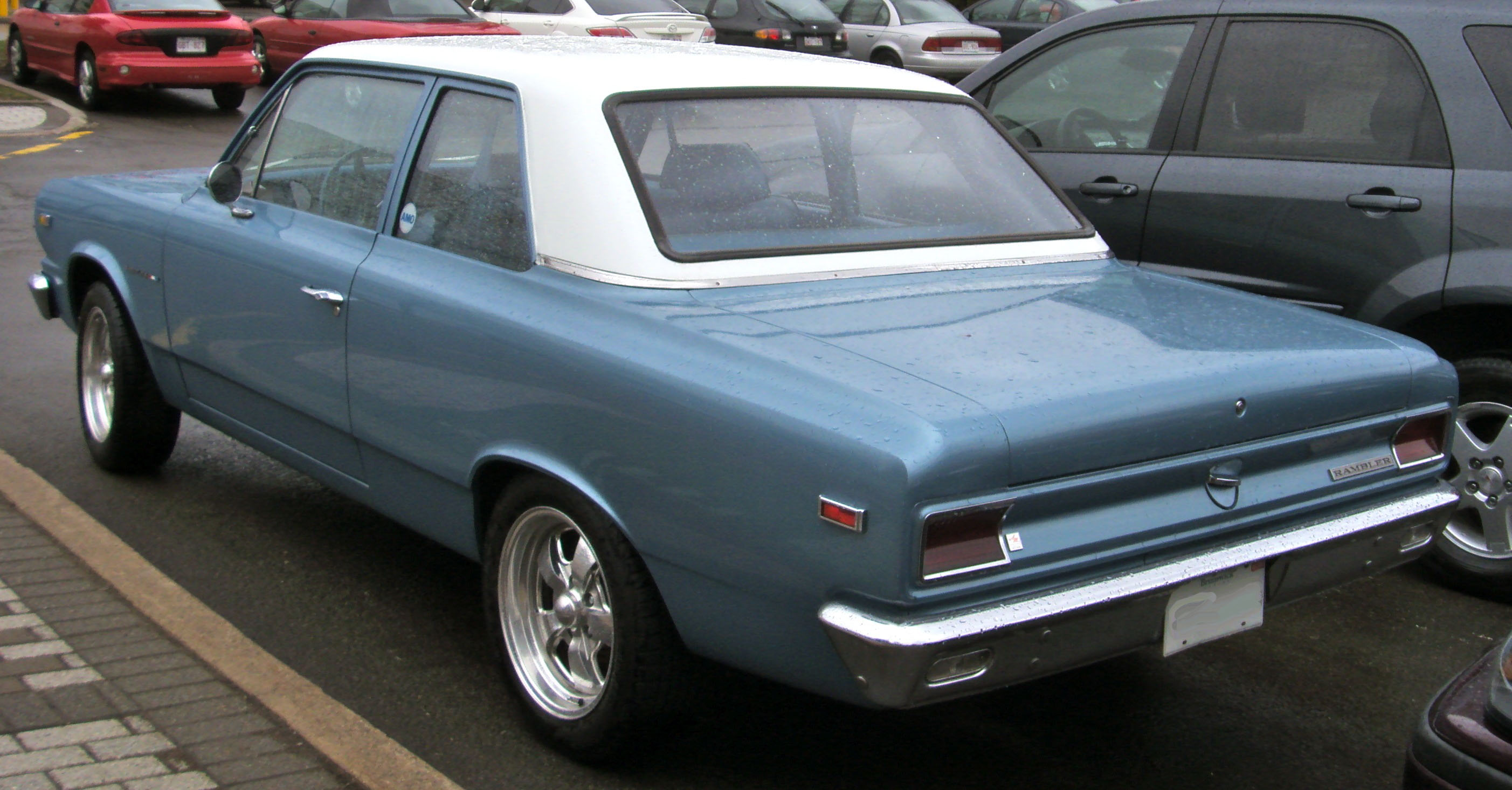 1960s Rambler American photographed in Moncton, New Brunswick, Canada.